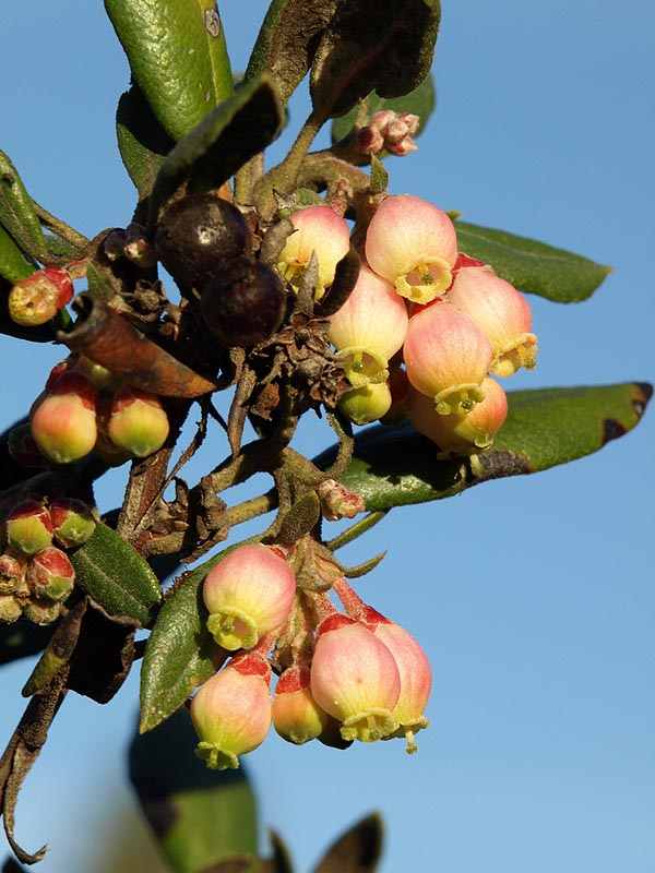 Xylococcus bicolor — Mission Manzanita, in bloom. Laguna Mountains , Southern California.